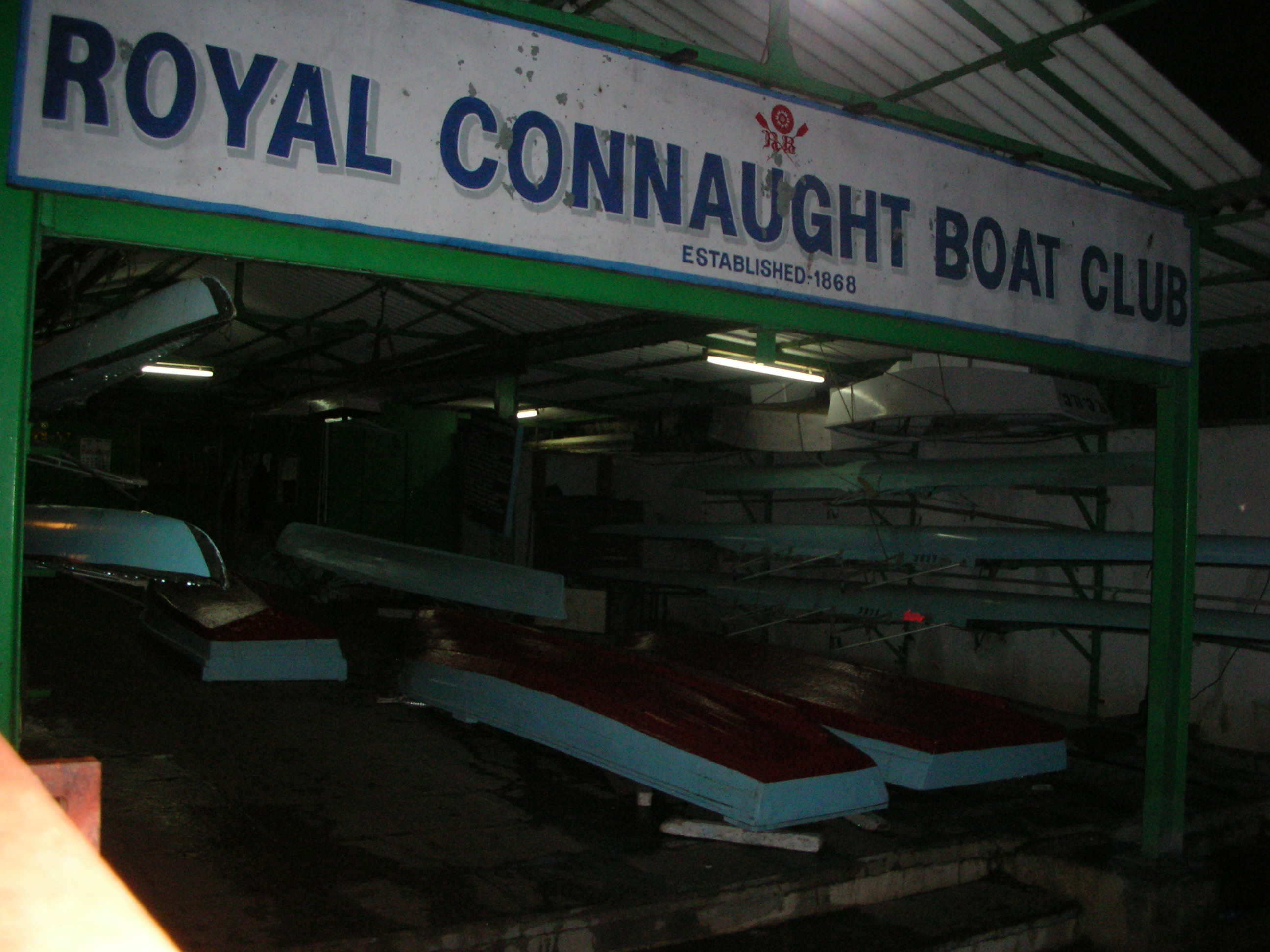 Royal Connaught Boat Club boathouse, Pune, India. Photograph by Jonathan Bowen, 14 September 2006.